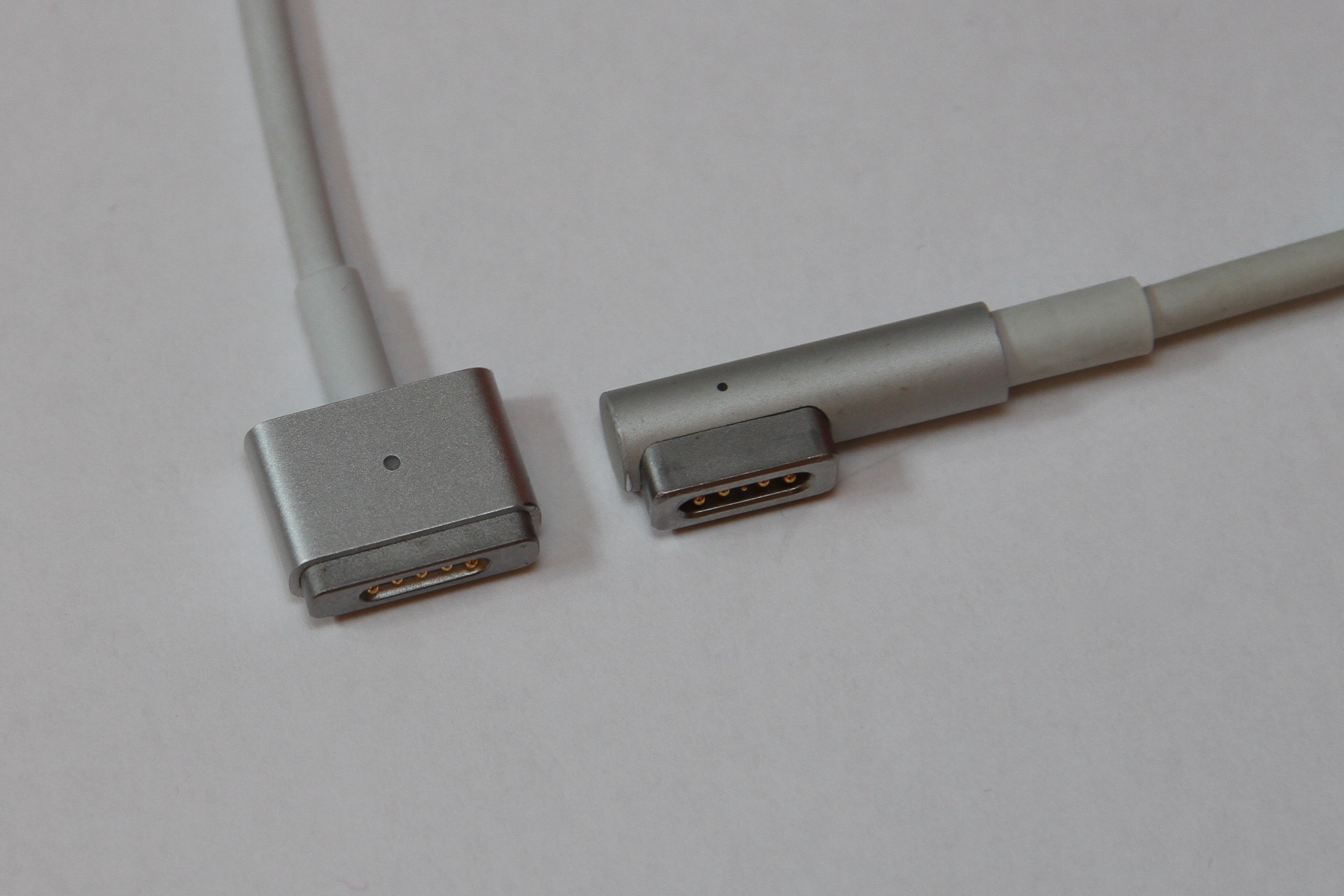 Comparison of the MagSafe connector 1 and 2